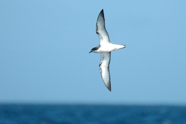 Cook's Petrel (Pterodroma cookii)